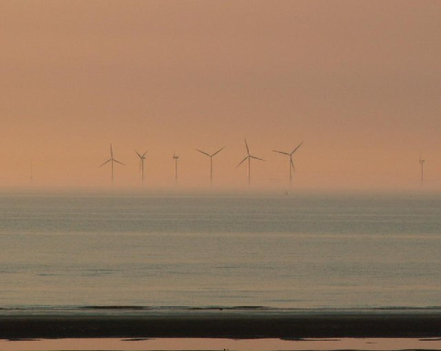 Wind Turbines off Rhyl - Prestatyn. The way to the future?... a blot on the landscape? Whichever way you view them, electricity generating wind turbines are here to stay. These, rising like the monsters they are, from the midsummer's evening mist lying quietly on Liverpool Bay. Photo taken from Rhyl's East Parade. Note: Picture probably shows the North Hoyle Offshore Wind Farm.